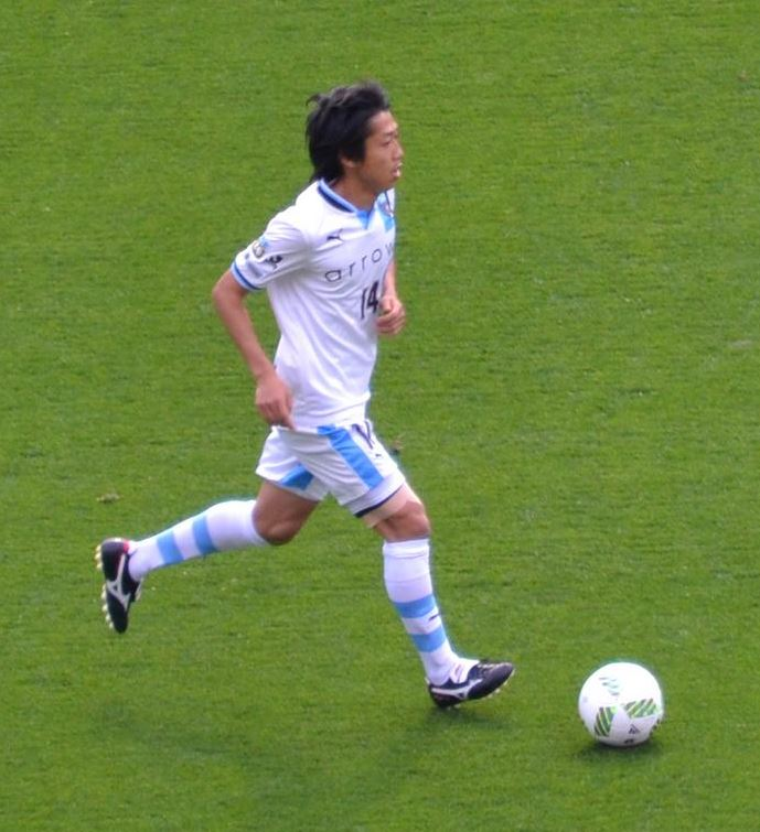 Kengo Nakamura during the Tamagawa Clasico - the match between FC Tokyo and Kawasaki Frontale - played at Ajinomoto Stadium 16th April 2016.